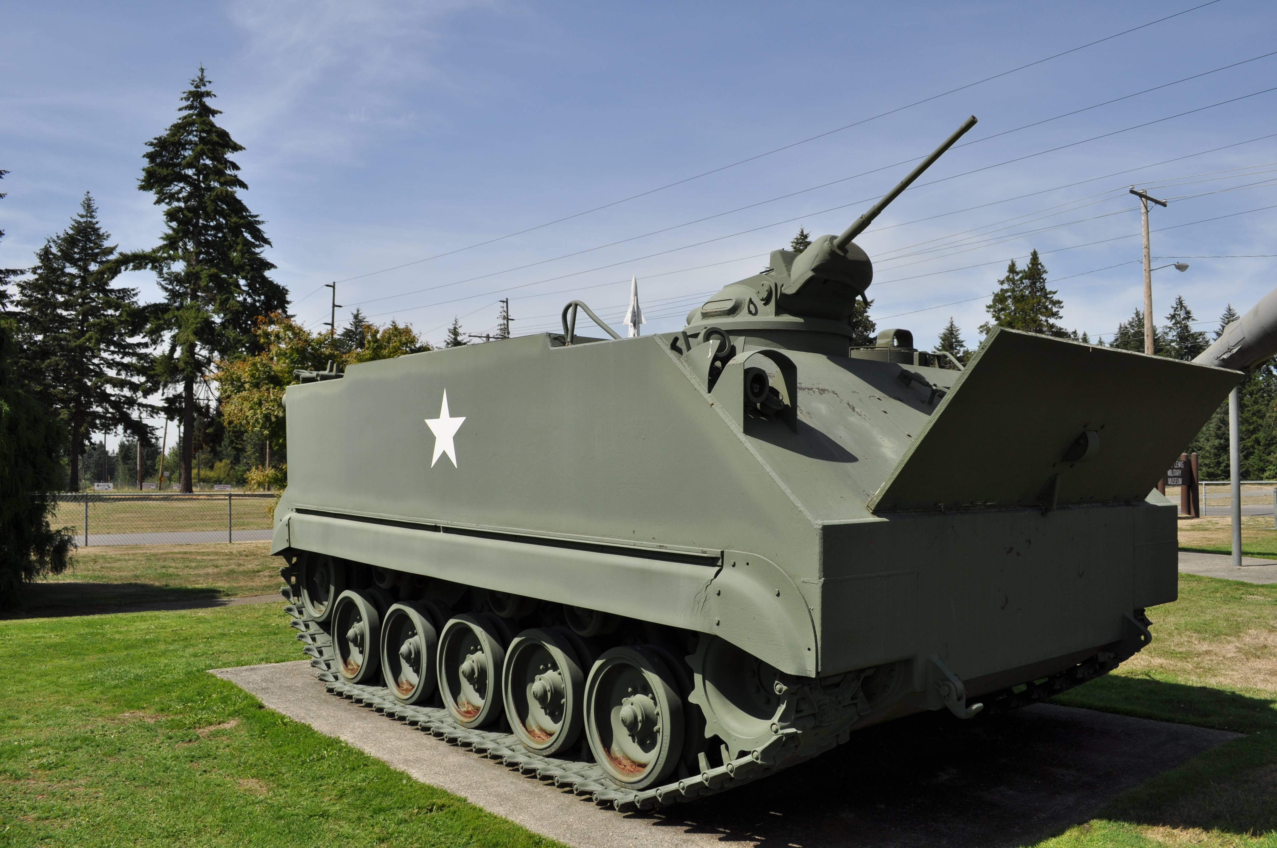 Now identified: M59 Armored Personnel Carrier, Fort Lewis Military Museum, Fort Lewis, Washington, USA.